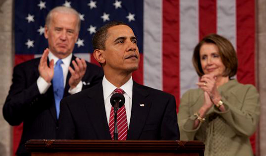 Barack Obama looks on during a joint session of Congress (State of the Union-like) on the night of February 24, 2009. Standing in front of Vice President Joe Biden and Speaker of the House Nancy Pelosi.